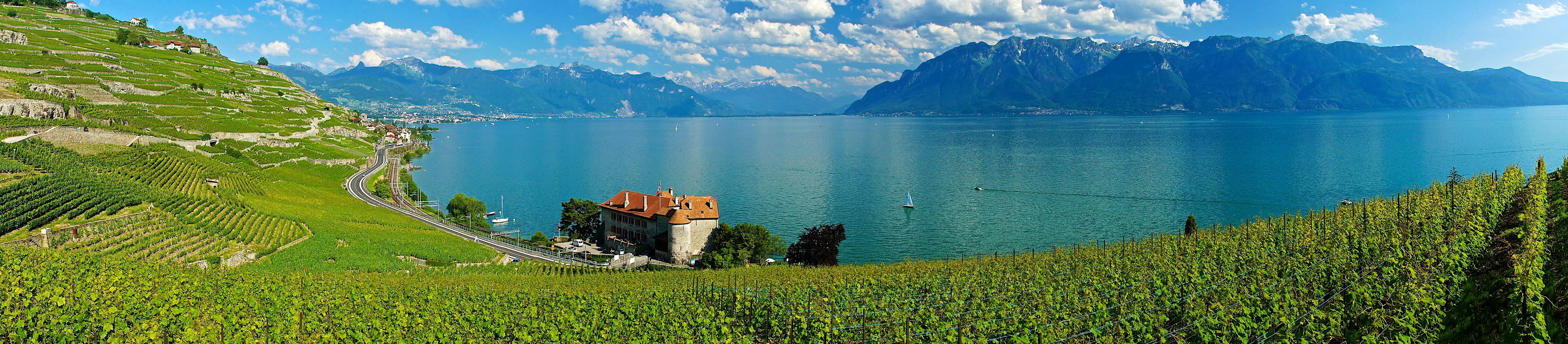 Panoramic View from Saint-Saphorin (Lavaux): winery, Lake and Swiss Alps